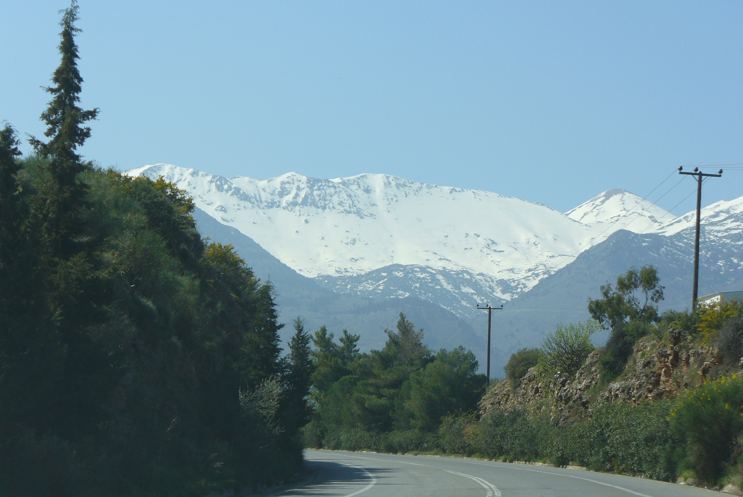 Lefka Ori (White Mountain) seen from the road Chania - Rethimno